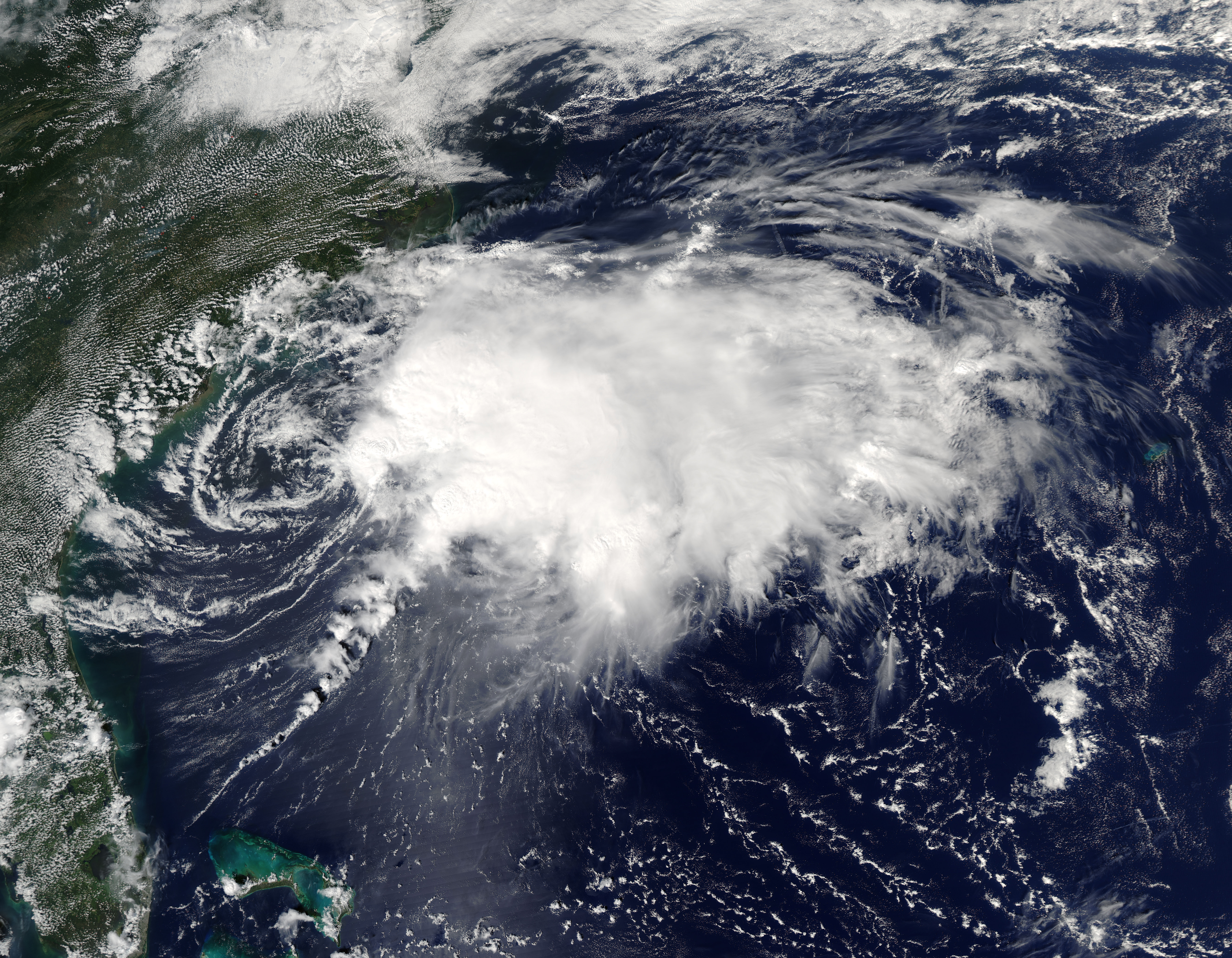 Tropical Storm Julia (11L) off southeastern United States